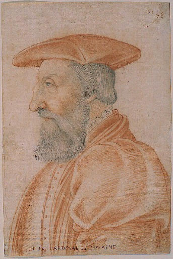 John, Cardinal of Lorraine (1498-1550)